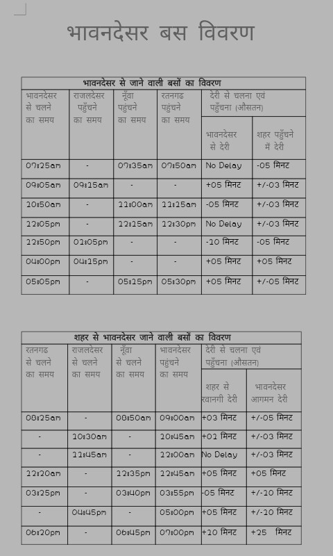 Time Table